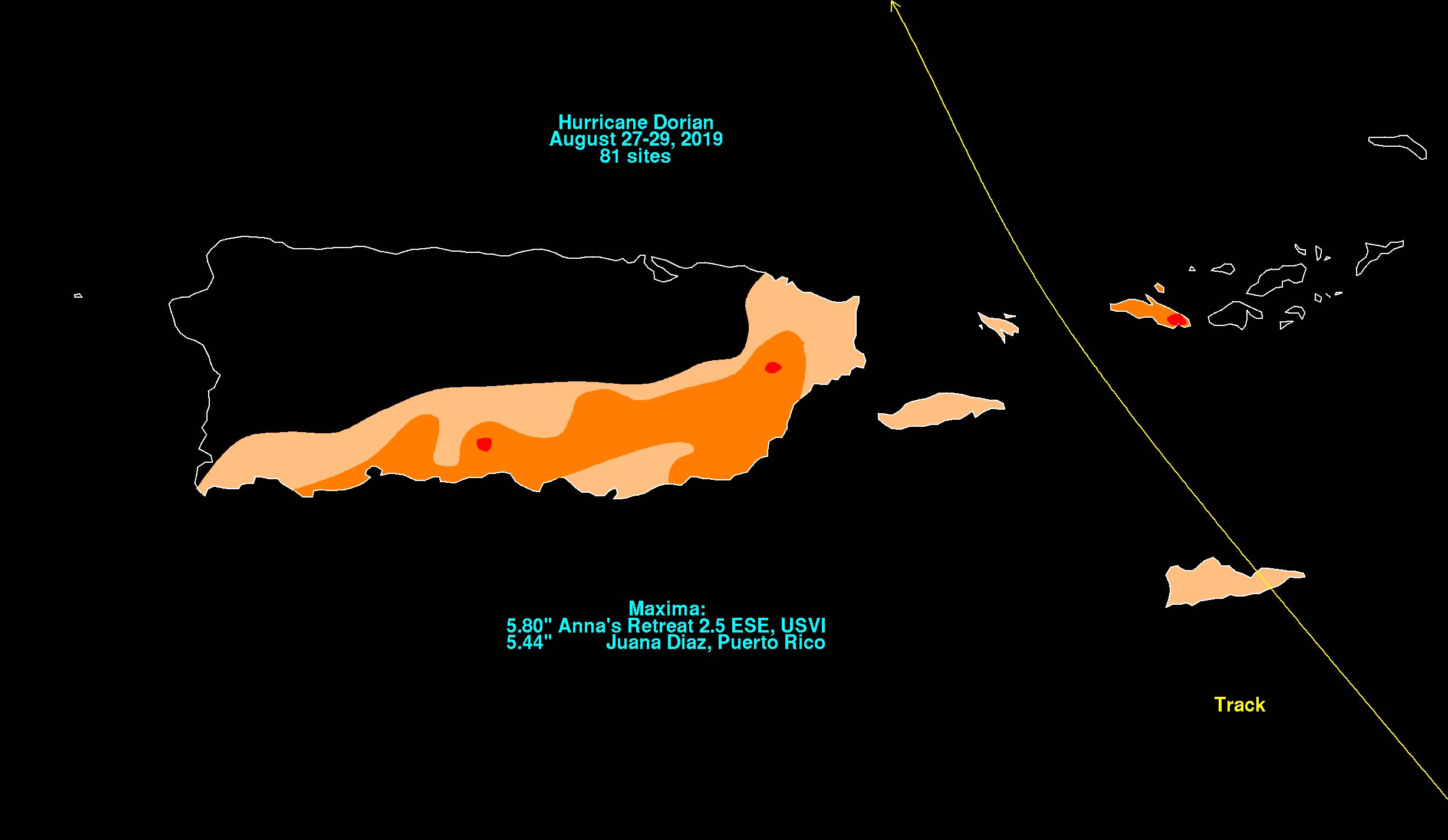 Graphical summary of rainfall associated with Hurricane Dorian in Puerto Rico and the United States Virgin Islands from August 26 to August 28, 2019